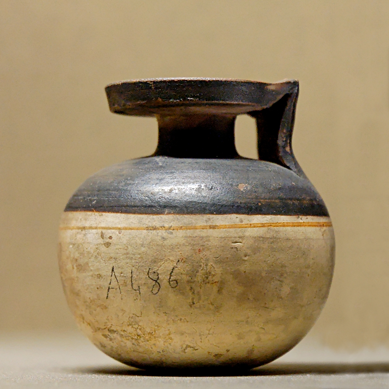 Laconian globular aryballos, ca. 575–550 BC. From Kameiros, Rhodes.